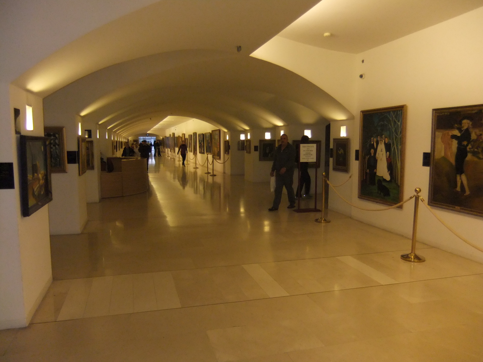 Belinson hospital entrance corridor to the main building. A display of art donated by Shmuel Plato Sharon.